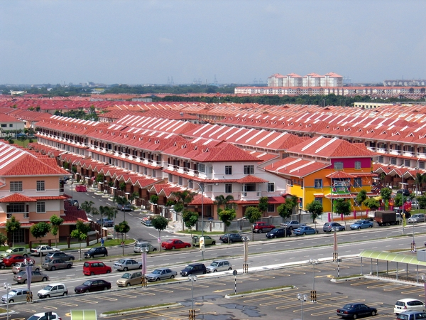 Aerial view of Bandar Bukit Tinggi 2, KlangBahasa Melayu: Pembangunan bersepadu Bandar Bukit Tinggi 2, Klang.